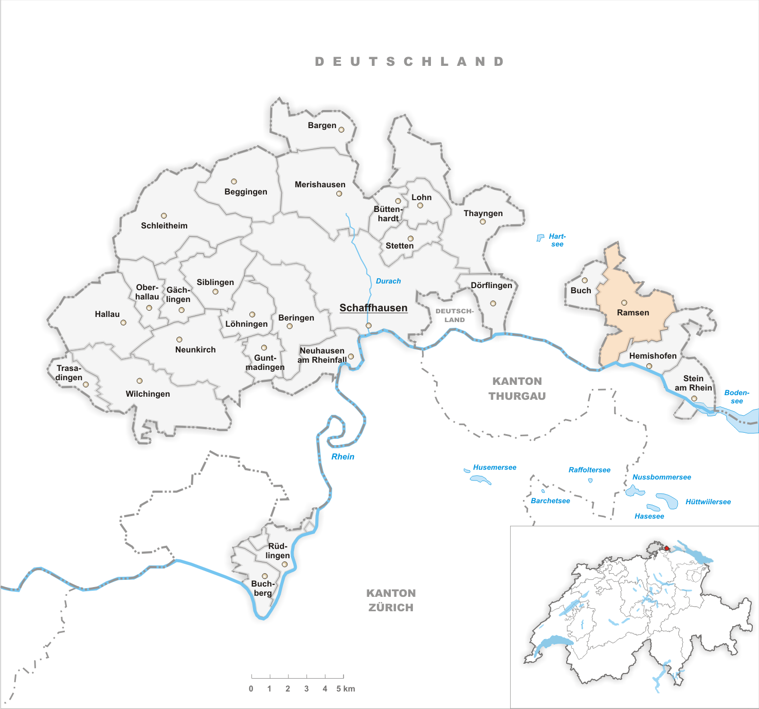 Municipality Ramsen